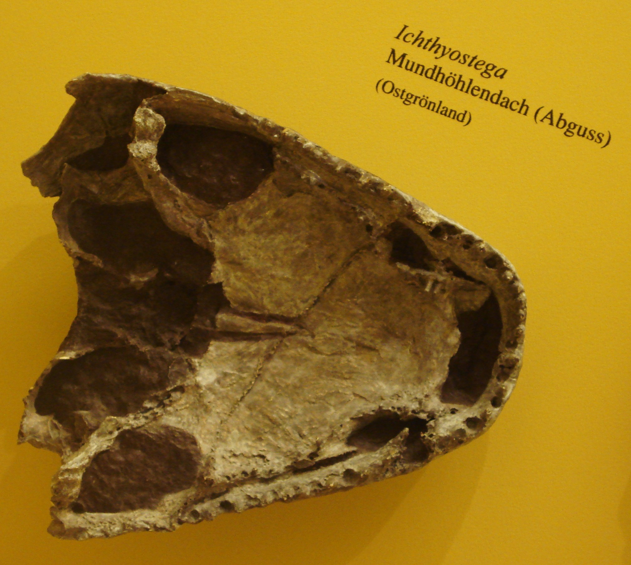 Skull of Ichthyostega an extinct tetrapod